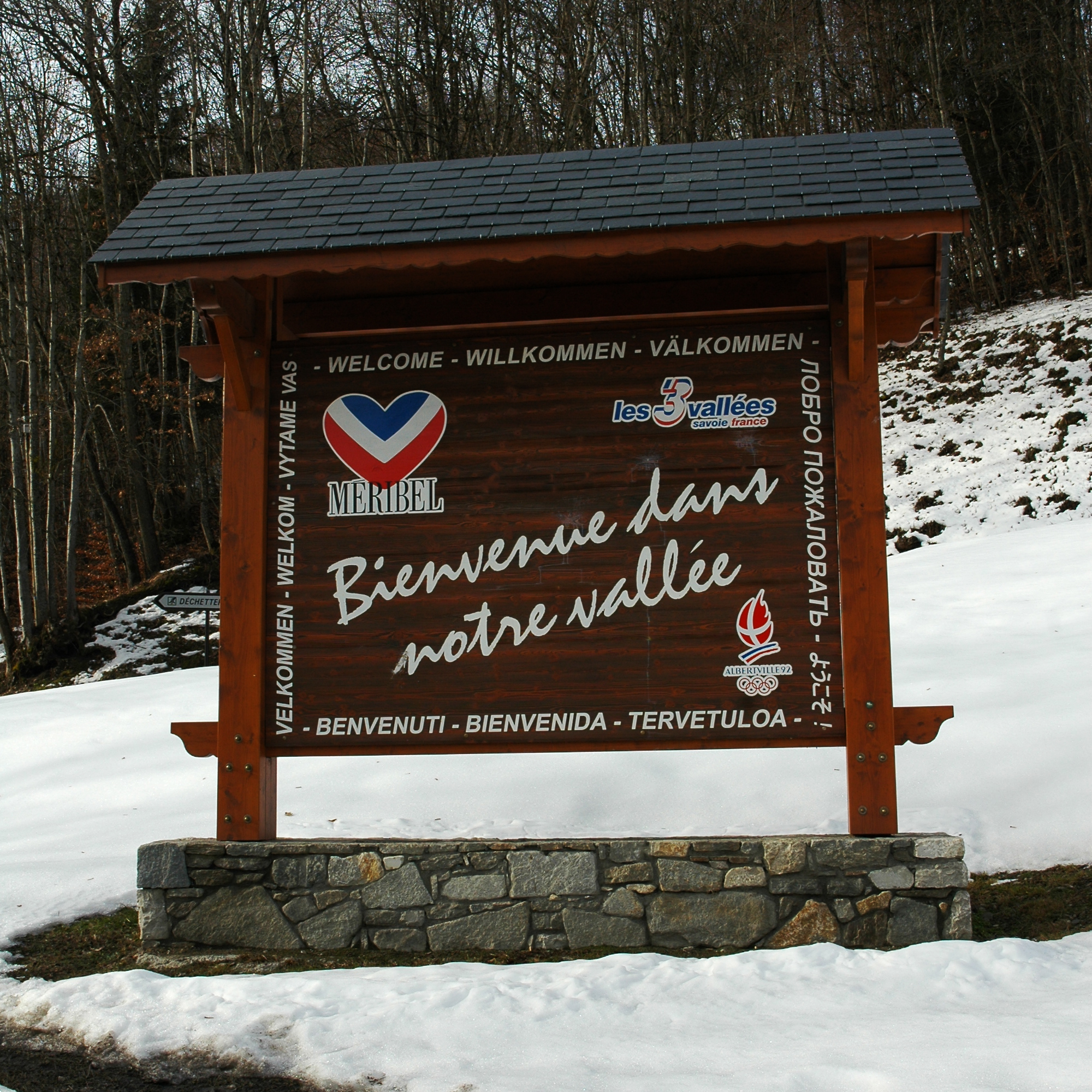 Welcome sign for the valley of Méribel, Les Trois Vallées, France.